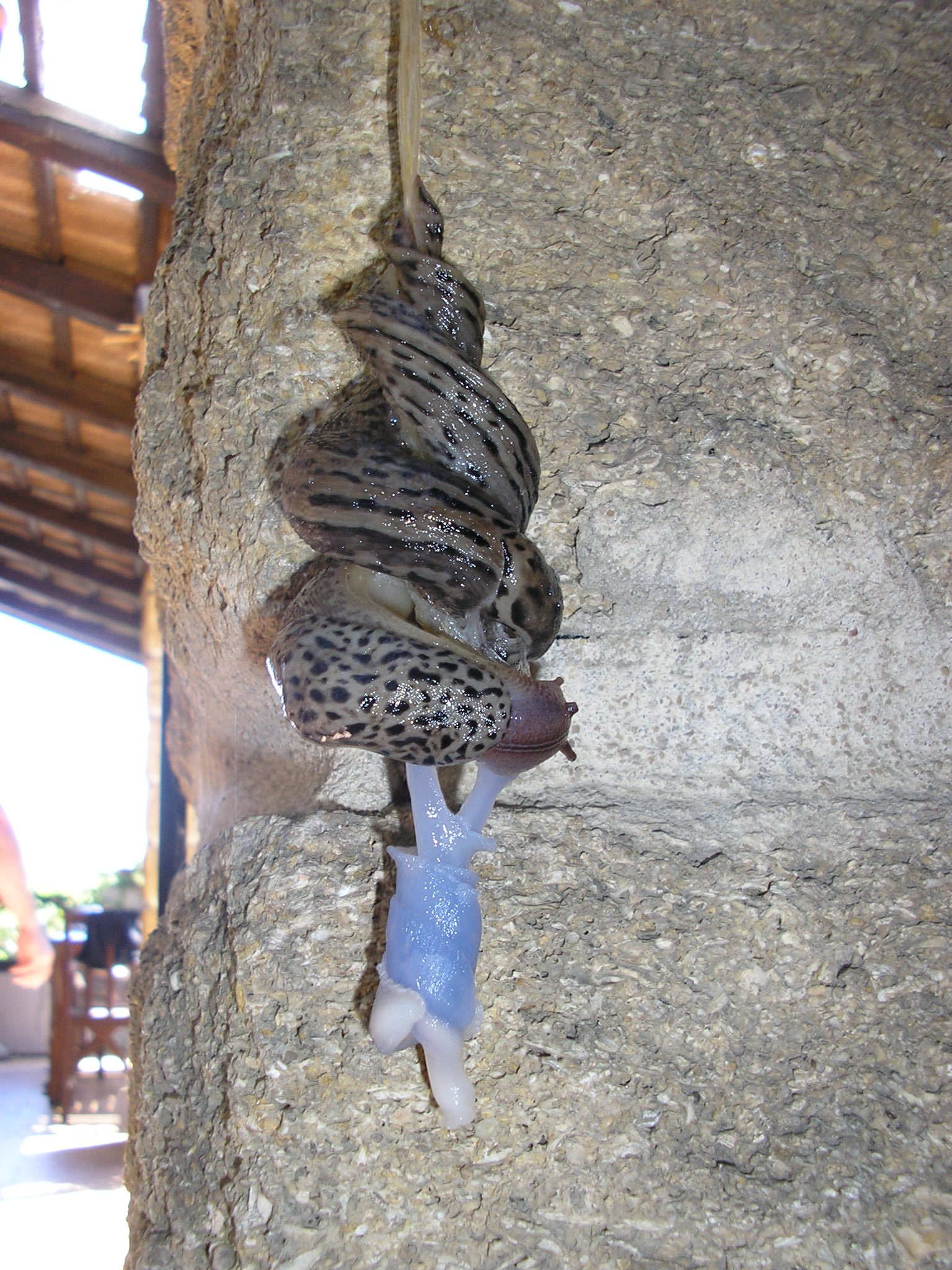 Limax maximus Photo de la reproduction entre deux limaces